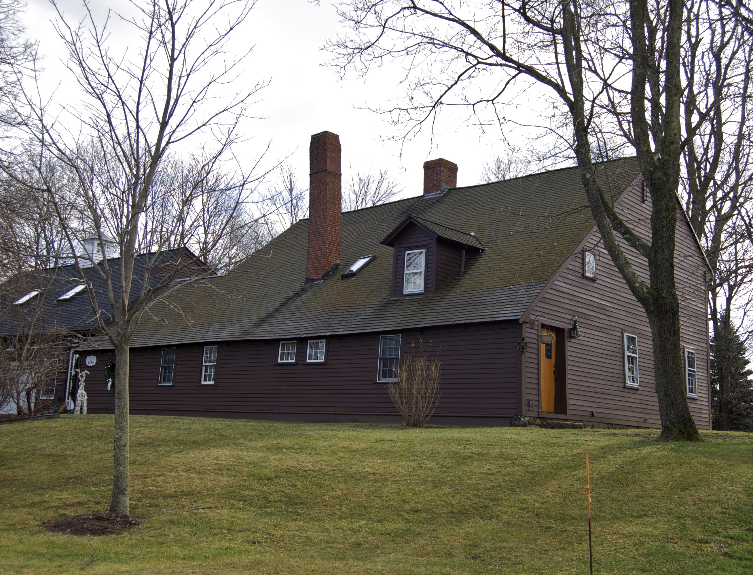 Rea Putnam Fowler house in Danvers, Massachusetts, with historical plaque dating it to 1650. Some other estimates online give different dates, but still one of the oldest houses in Essex County. A PDF brochure from puts it at 1636.